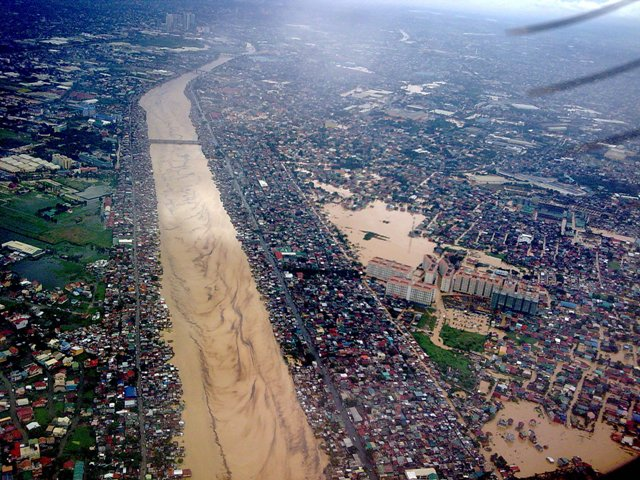 An Aerial photograph of the area around the Manggahan Floodway in the immediate aftermath of Typhoon Ketsana in 2009.